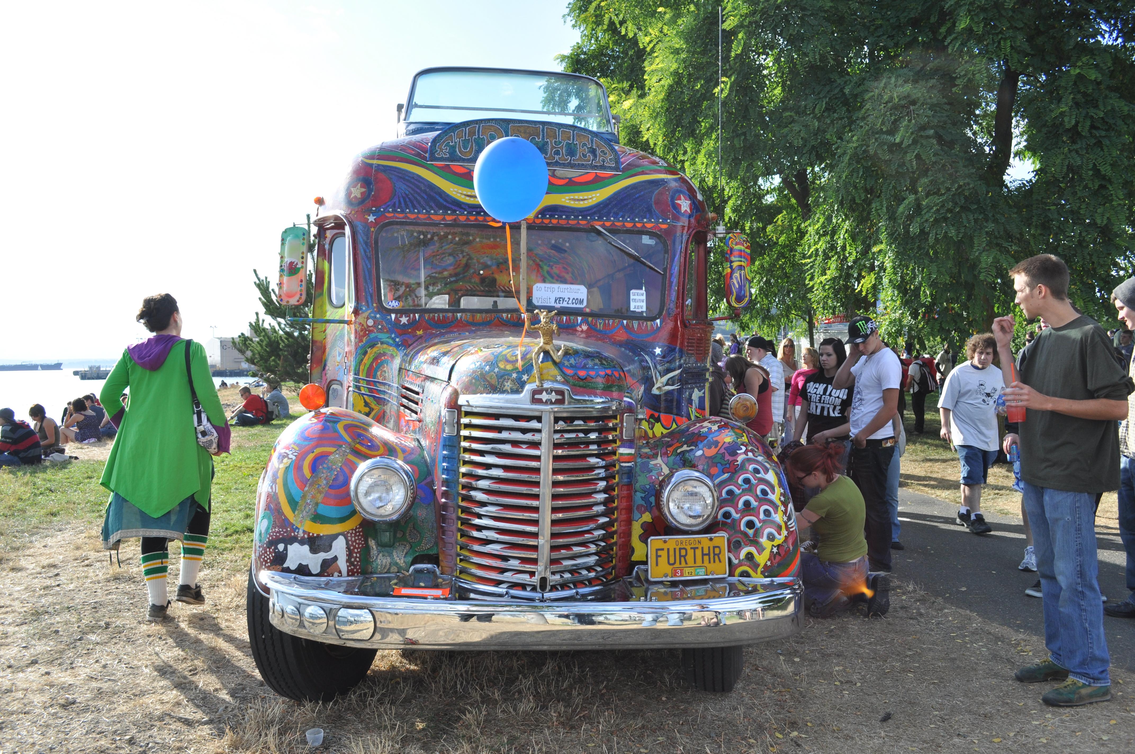 "Further" / "Furthur", Ken Kesey and the Merry Pranksters' famous bus, Hempfest 2010, Myrtle Edwards Park, Seattle, Washington, 2010, at which time it had recently been restored.